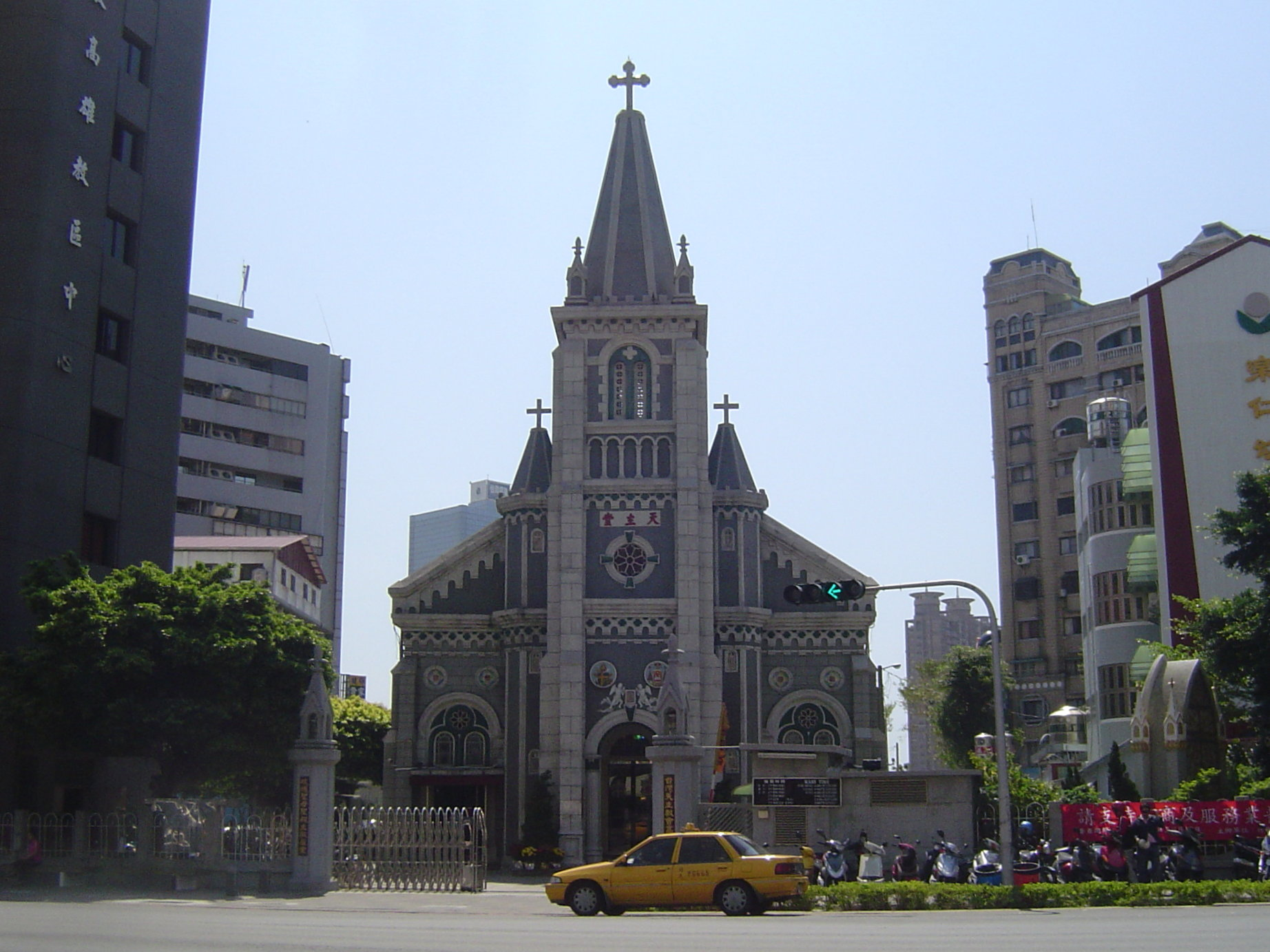 Holy Rosary Cathedral, Lingya District, Kaohsiung City, Taiwan